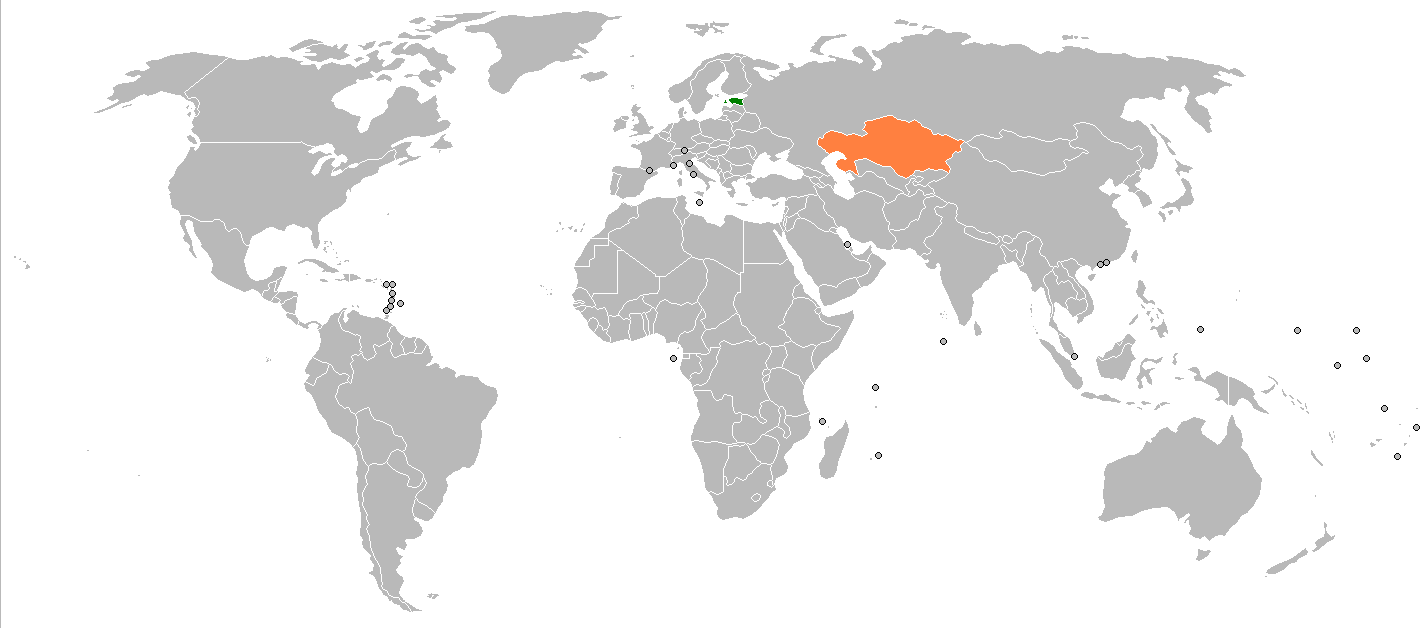 Estonia-Kazakhstan locator map. I made this map out of a licence free blank map of Europe.